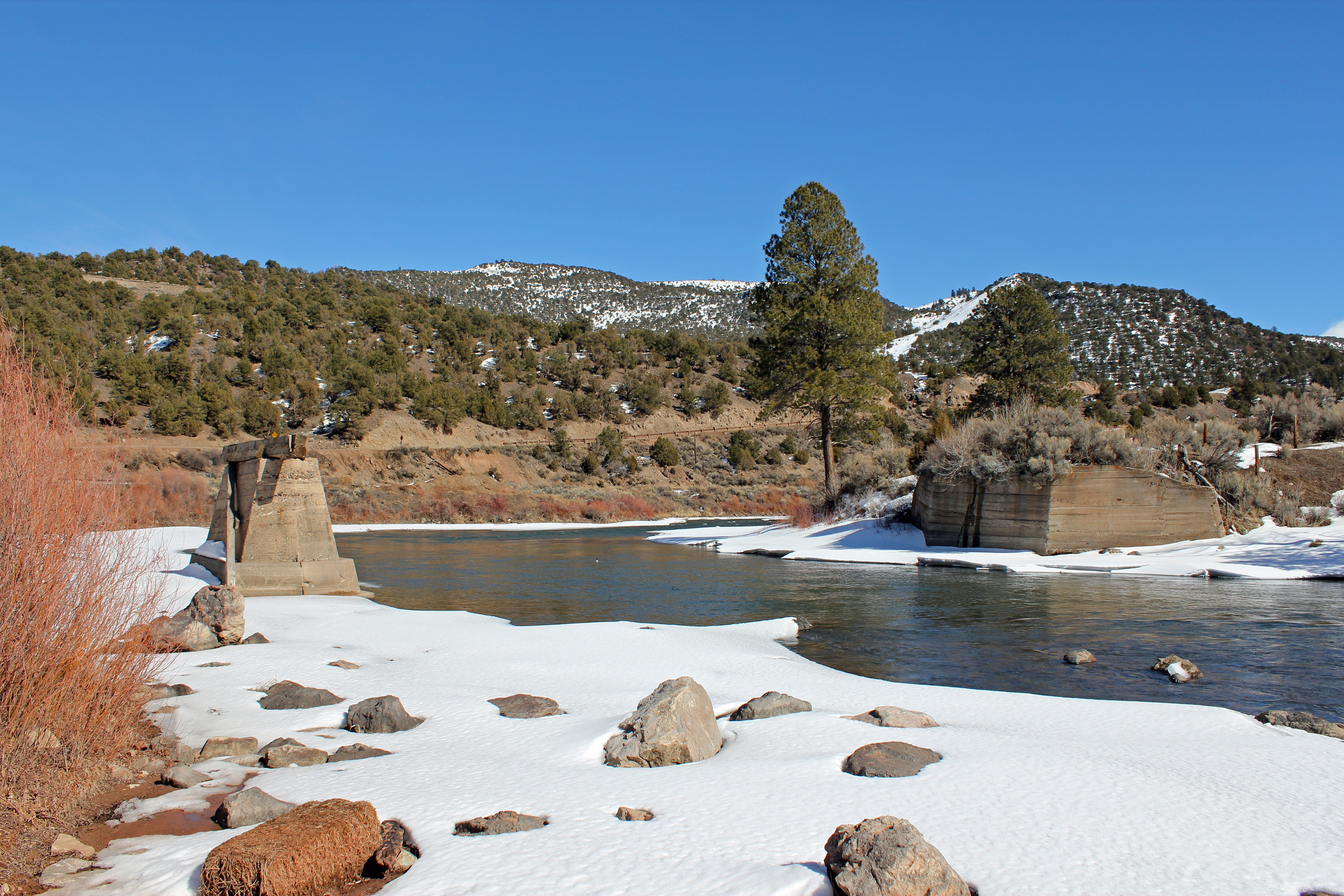 The ruins of State Bridge, located in the settlement of State Bridge, Eagle County, Colorado. The ruins are about a quarter mile off Colorado State Highway 131. The site is listed on the National Register of Historic Places. The river is the Colorado River.